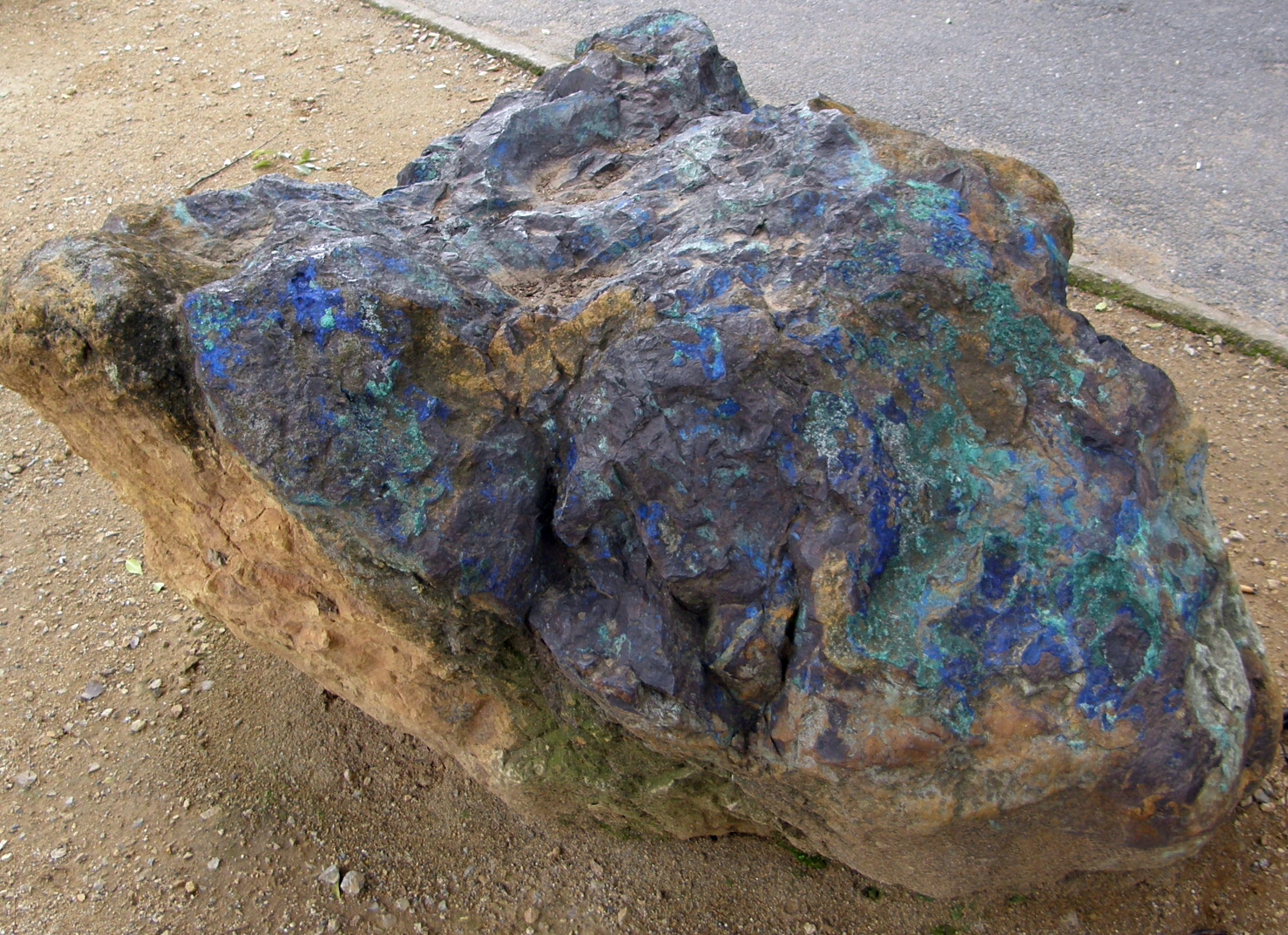 Copper ore with malachite and azurite from the Burra deposit in South Australia